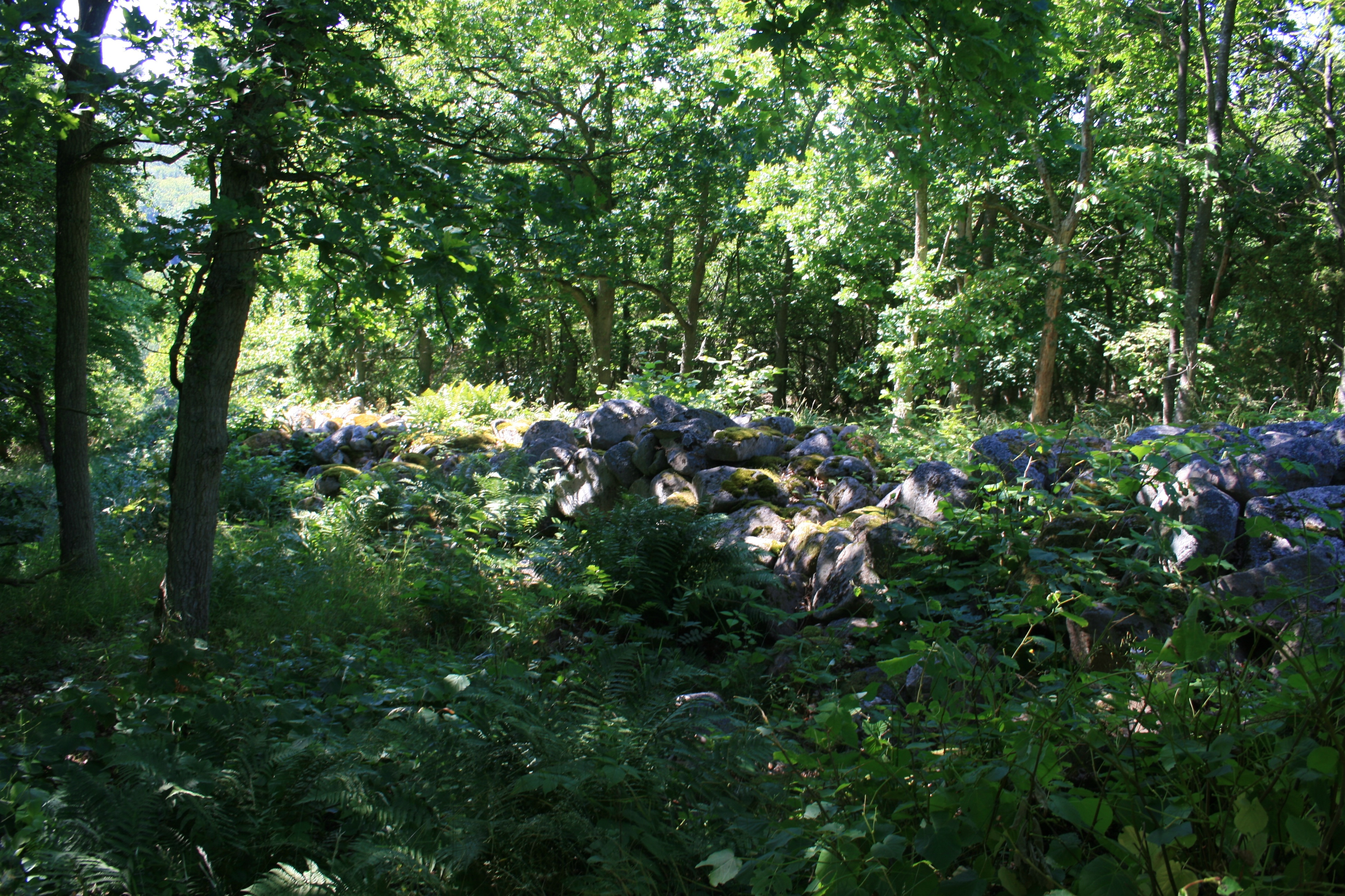 Prehistoric fortress (400-550 after JC) close to Stenshuvud top, Stenshuvud national park